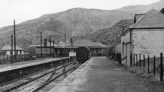 Ballachulish (Glencoe) Station, Near to Ballachulish, Highland, Great Britain. Eastward to buffer-stops. Station was terminus of branch from Connel Ferry (on the line to Oban); the branch was closed 28/3/66. Loch Leven is off to left.